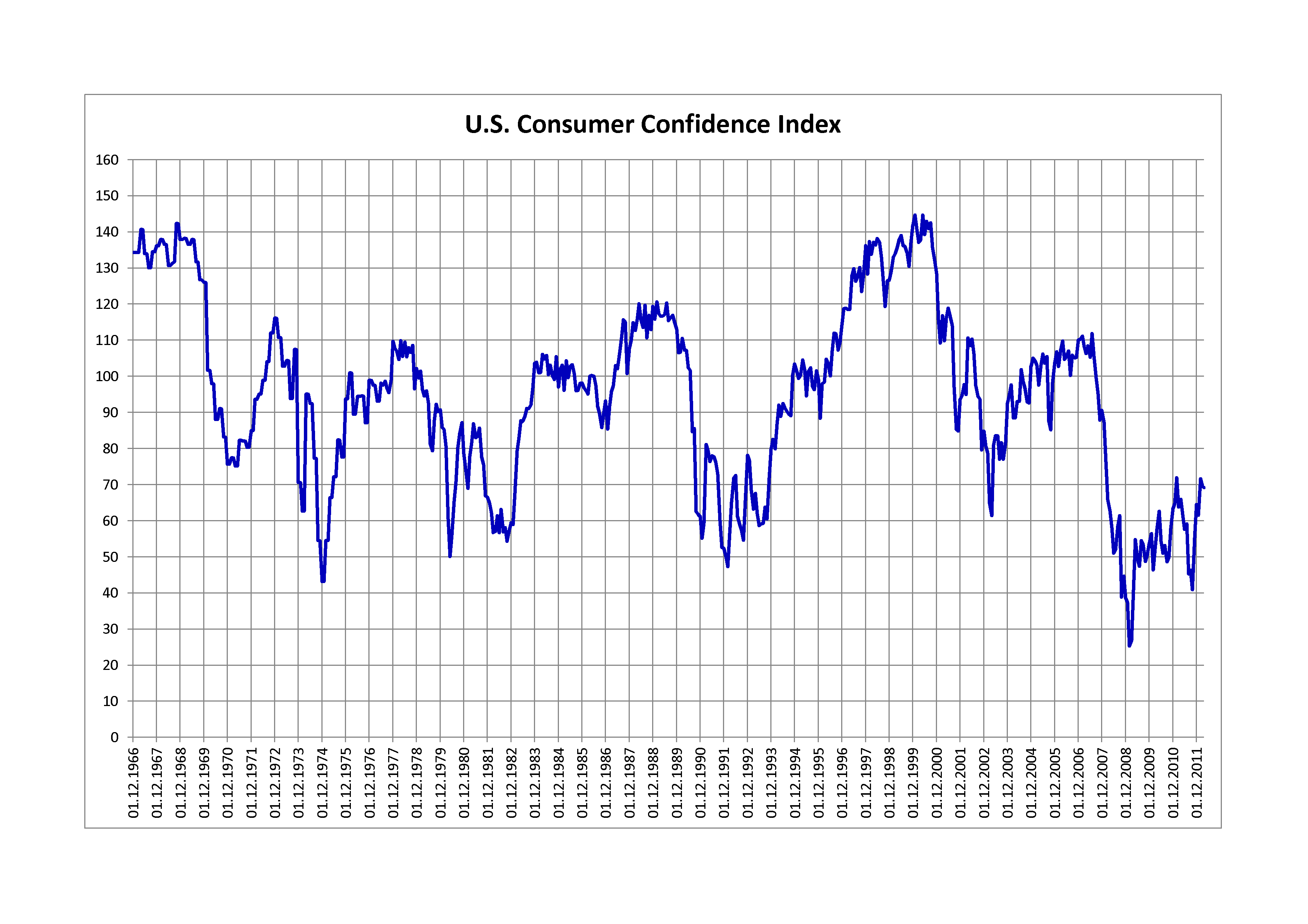 U.S. Consumer Confidence Index from December 1966 to April 2012 (monthly data).